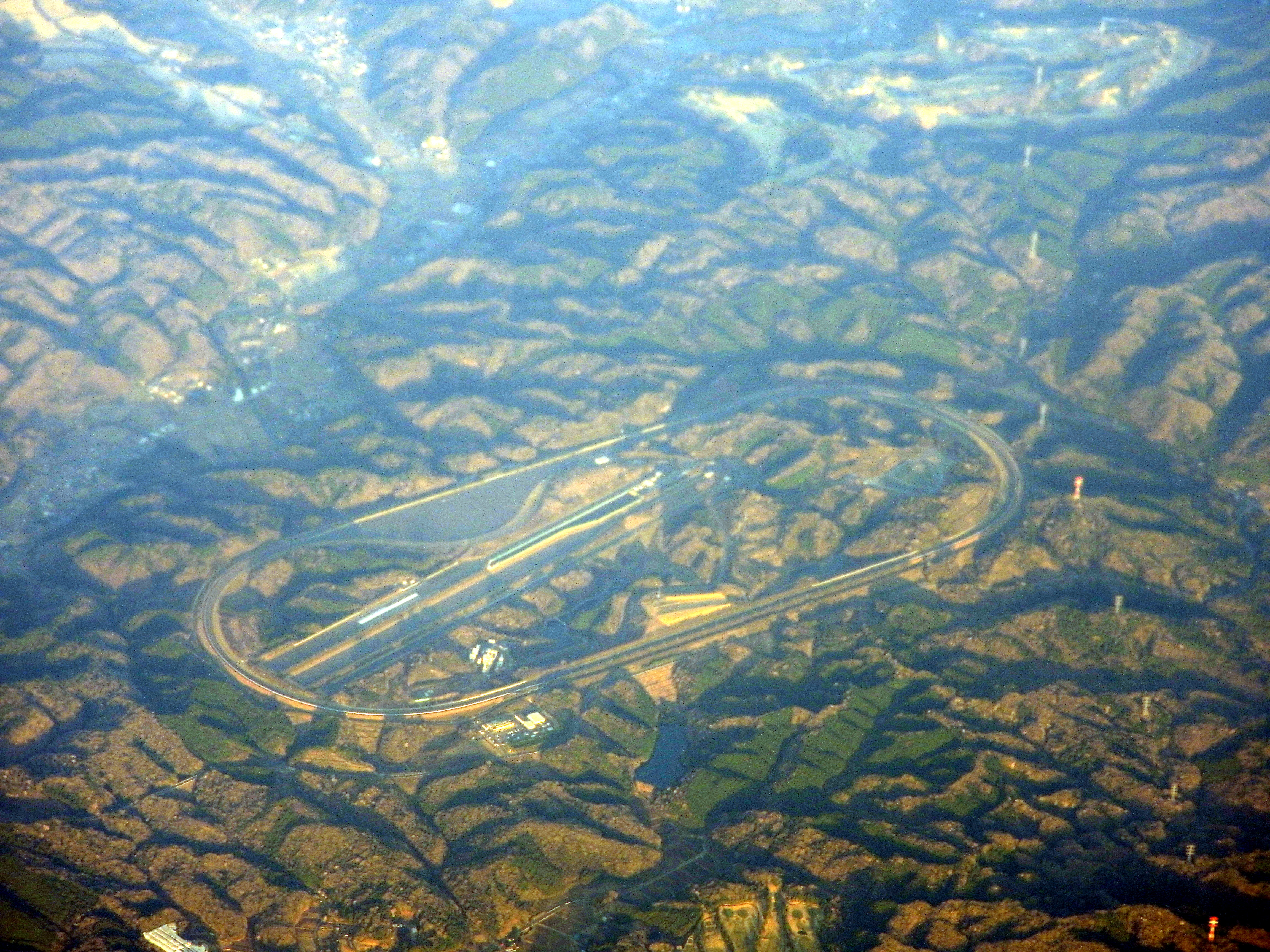 JARI (Japan Automobile Research Institute) Proving Ground (Shirosato-machi, Higashiibaraki-gun, Ibaraki-ken)